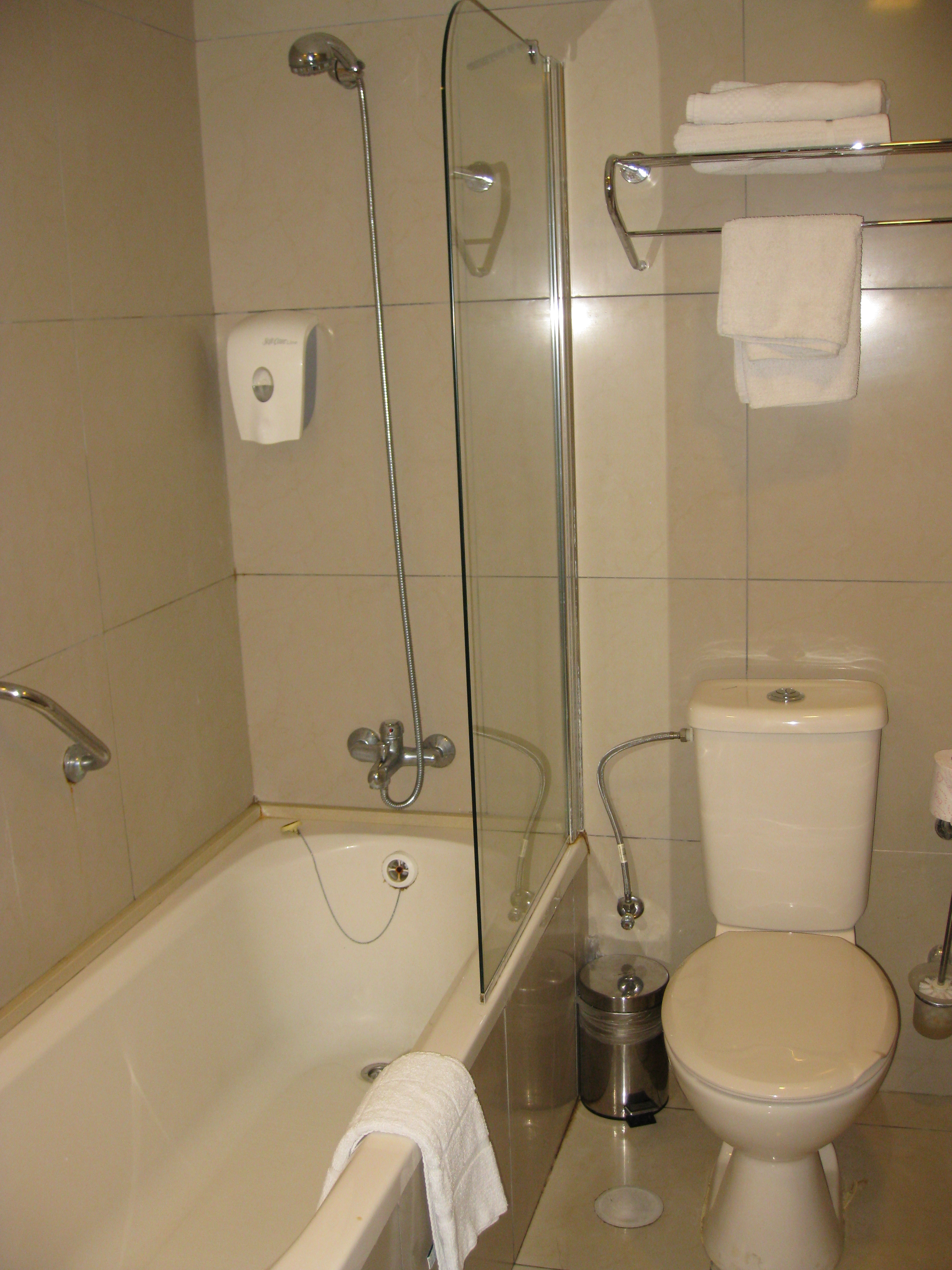 Gallery Hotel, Haifa